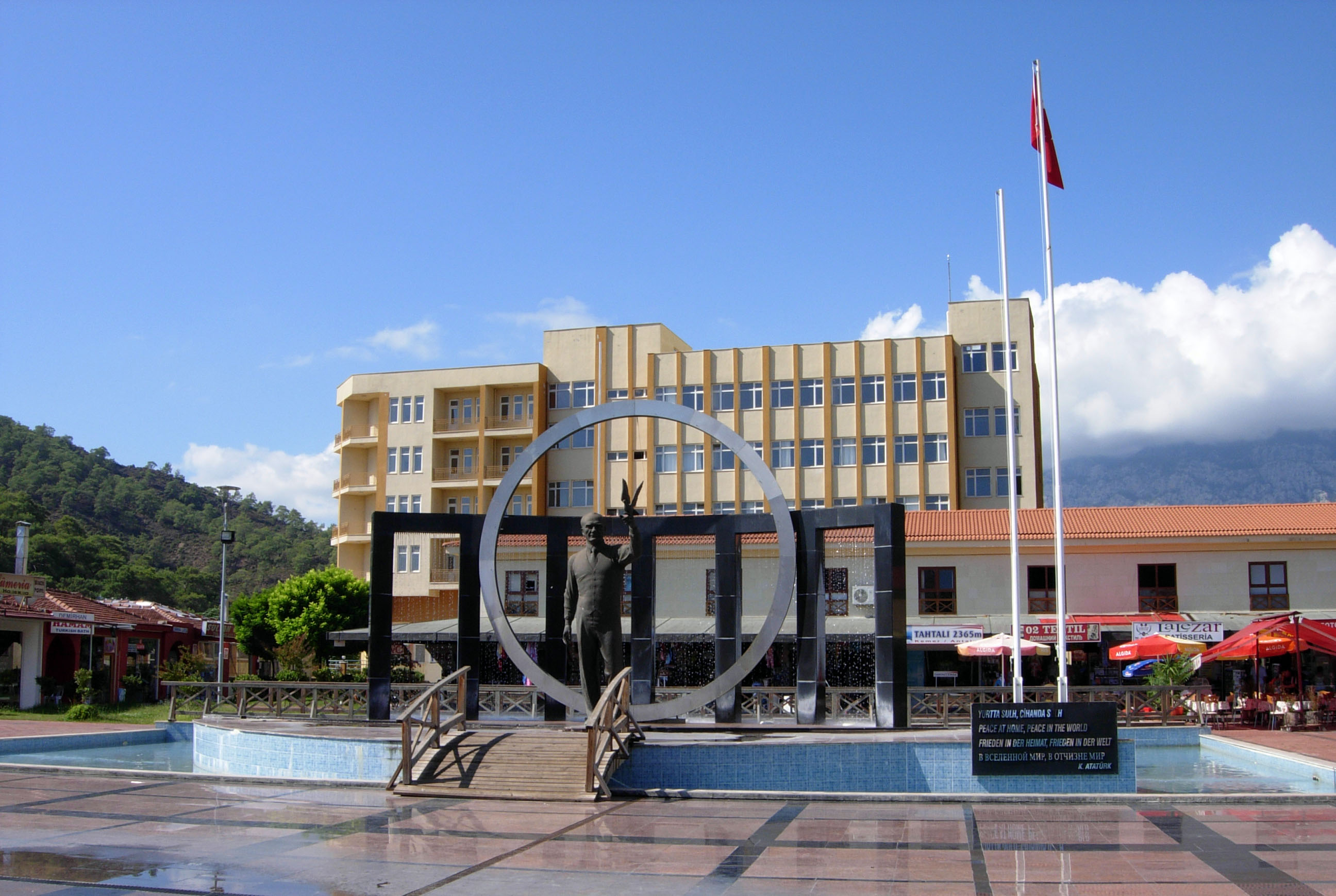 Kemer (Turkey)